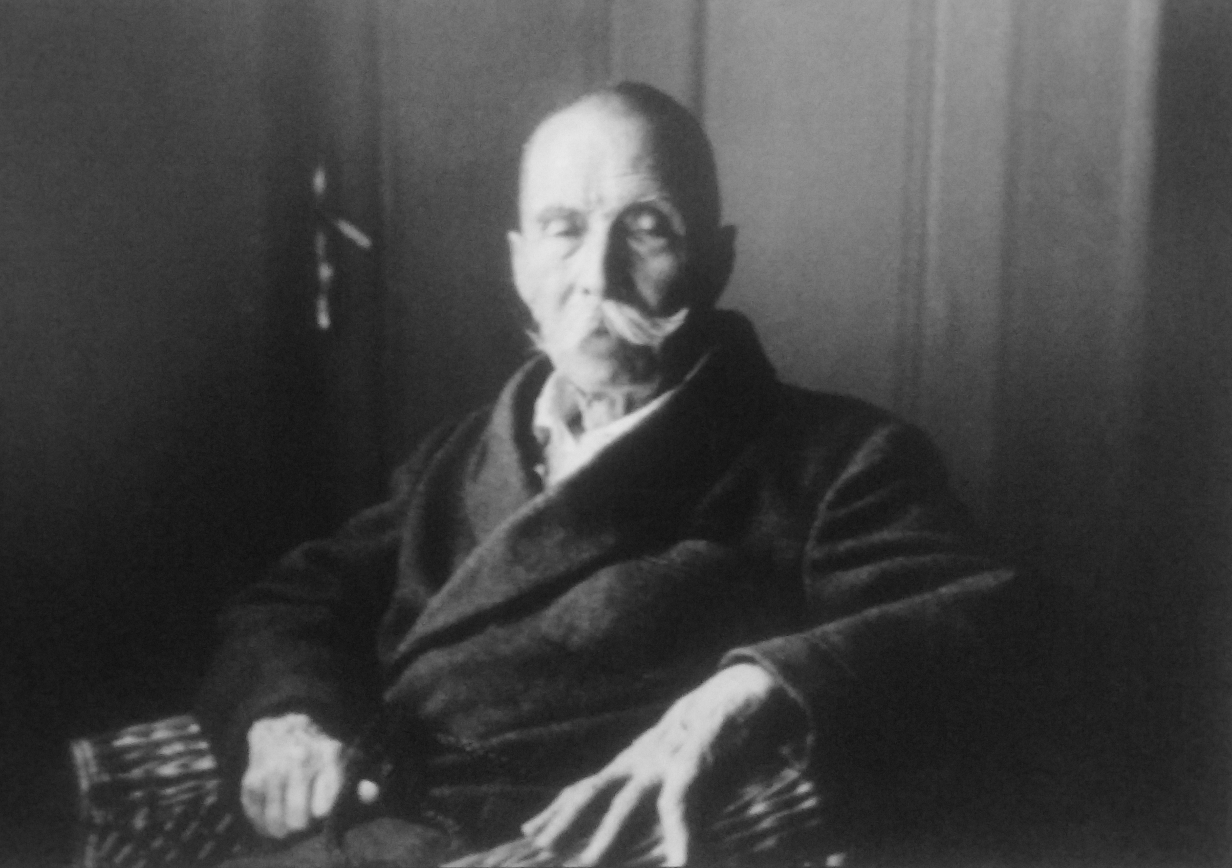 Duke Bojovic in Belgrade 1944. Српски (ћирилица): Војвода Бојовић у свом стану у Београду 1944.